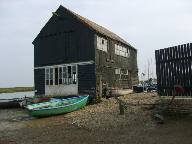 Granary at Tollesbury Hard 19th century Grade II listed weather boarded building, featured on BBC's Restoration series. Although it may never have been a granary, it received and stored cargoes brought up the River Crouch on barges and smacks. Built on pillars to protect from spring tides.